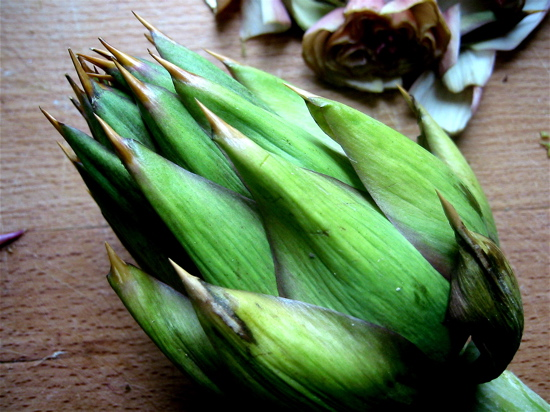 Closeup of green artichoke thistle.